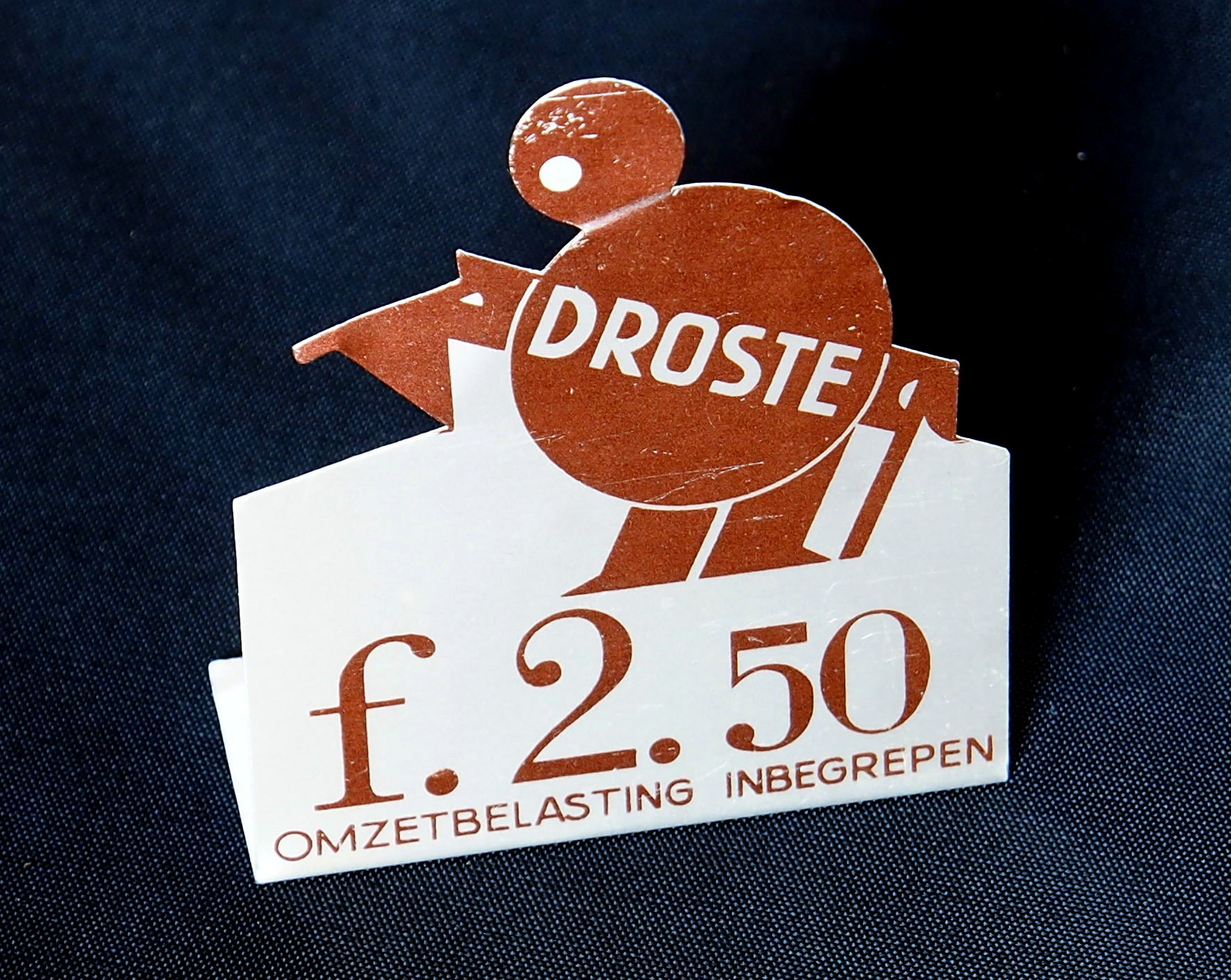 Photographed at a collector of Droste. For info see tincollectors.nl or